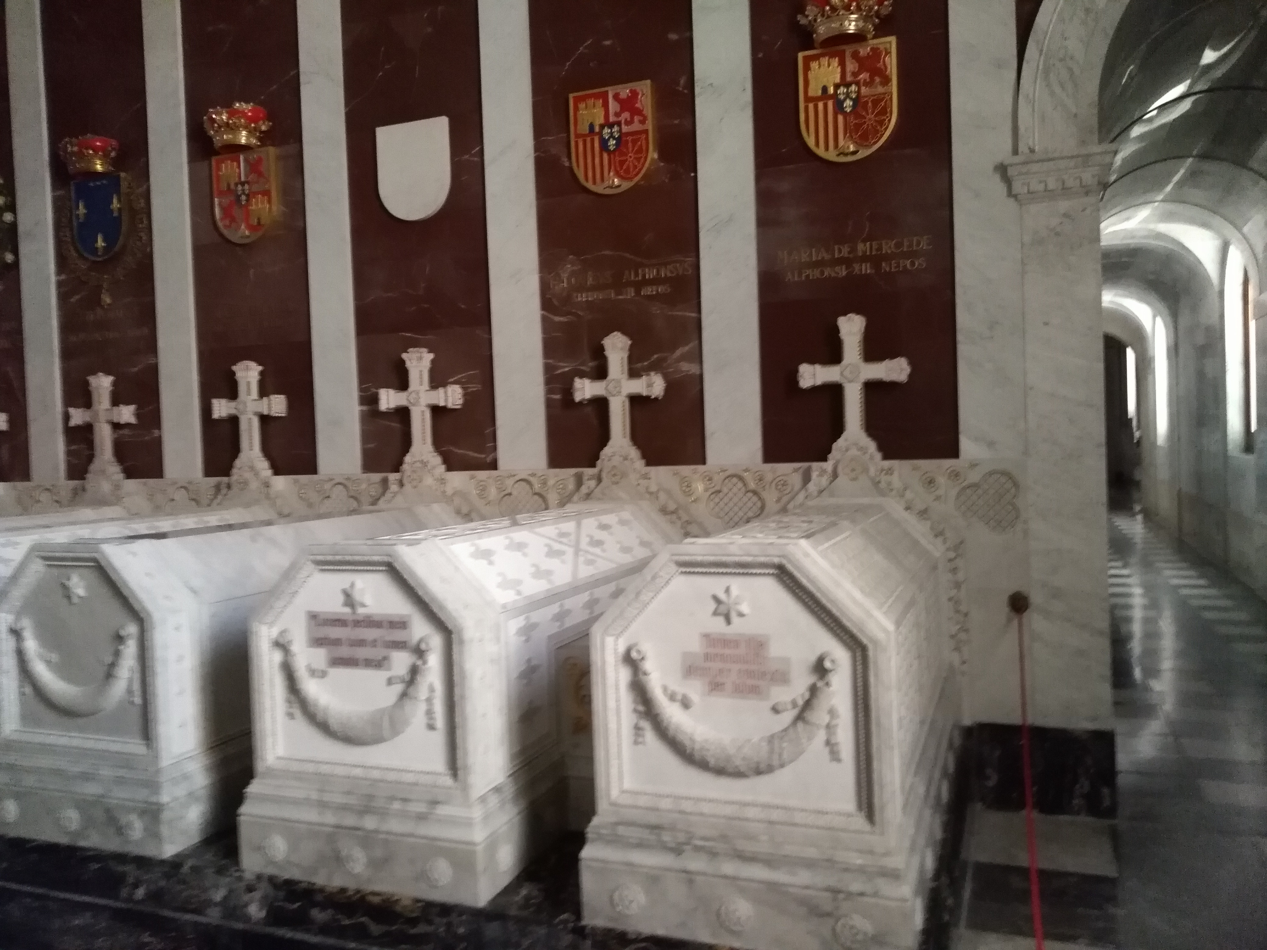 Pantheon of the Infantes - Chapel 4